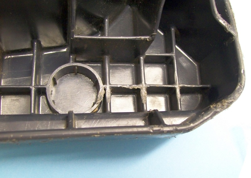 Circular nest (or pocket) moulded under lip of latest generation plastic waste bins, intended for RFID tag, viewed from below